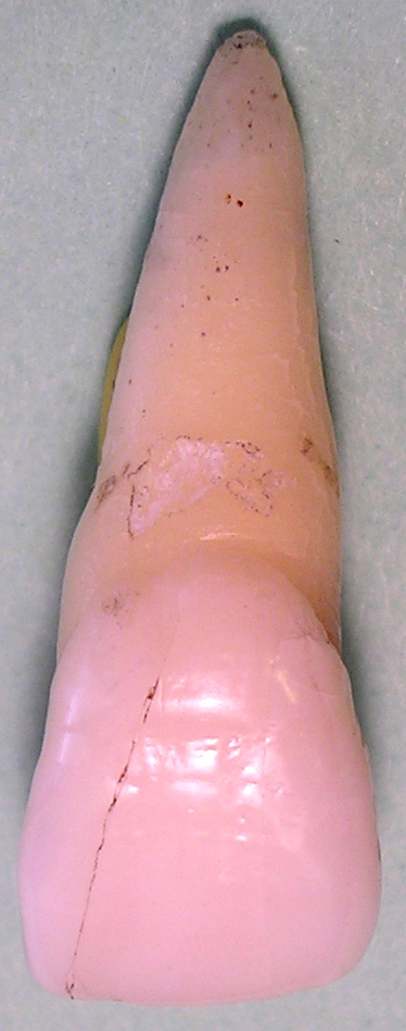 Photo of a permanent maxillary central incisor (#9 by the universal system of notation) taken from the facial view.